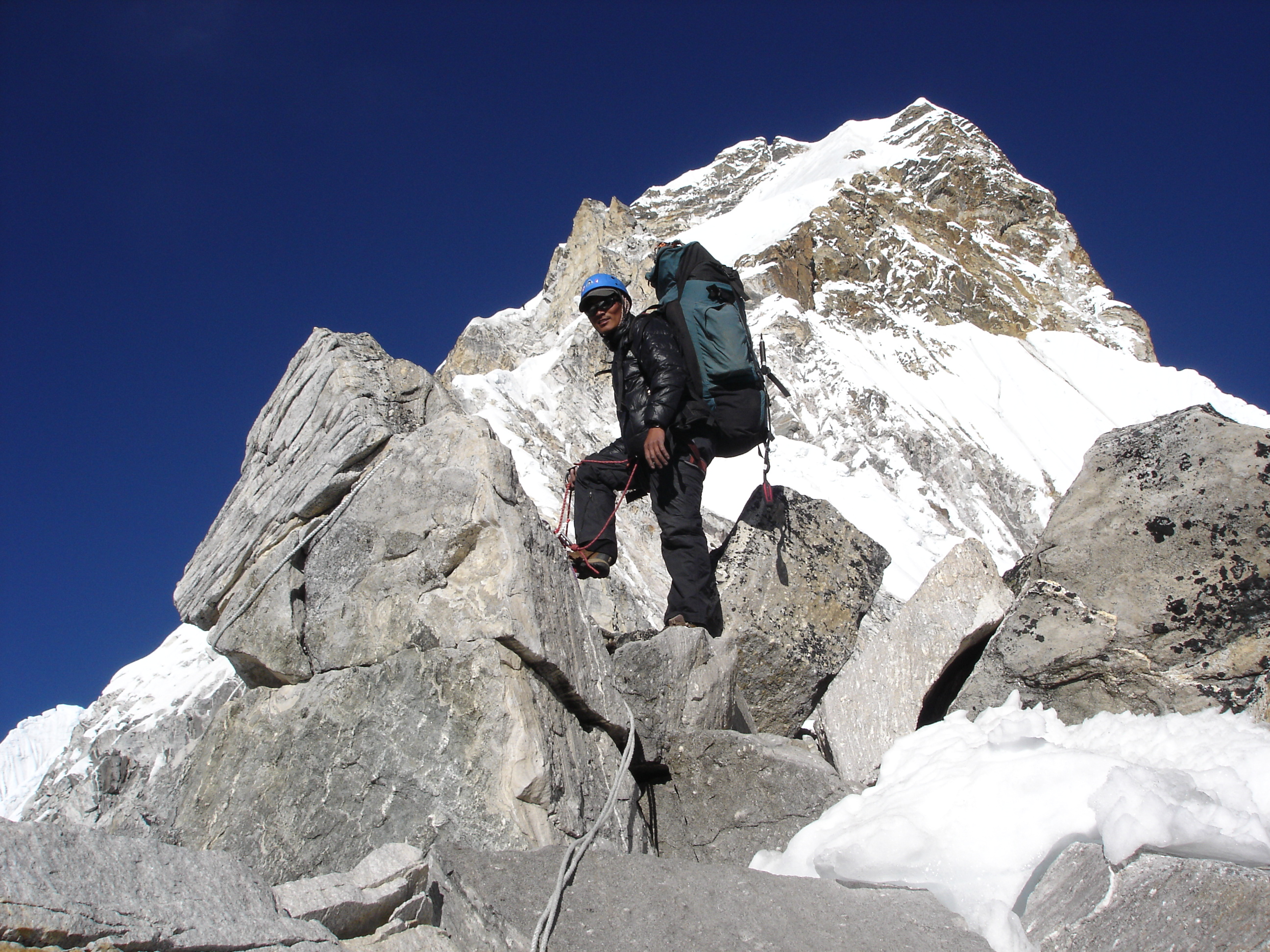 Mt Ama Dablam